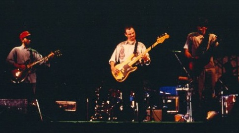 Dominican Rock band Cahobazul